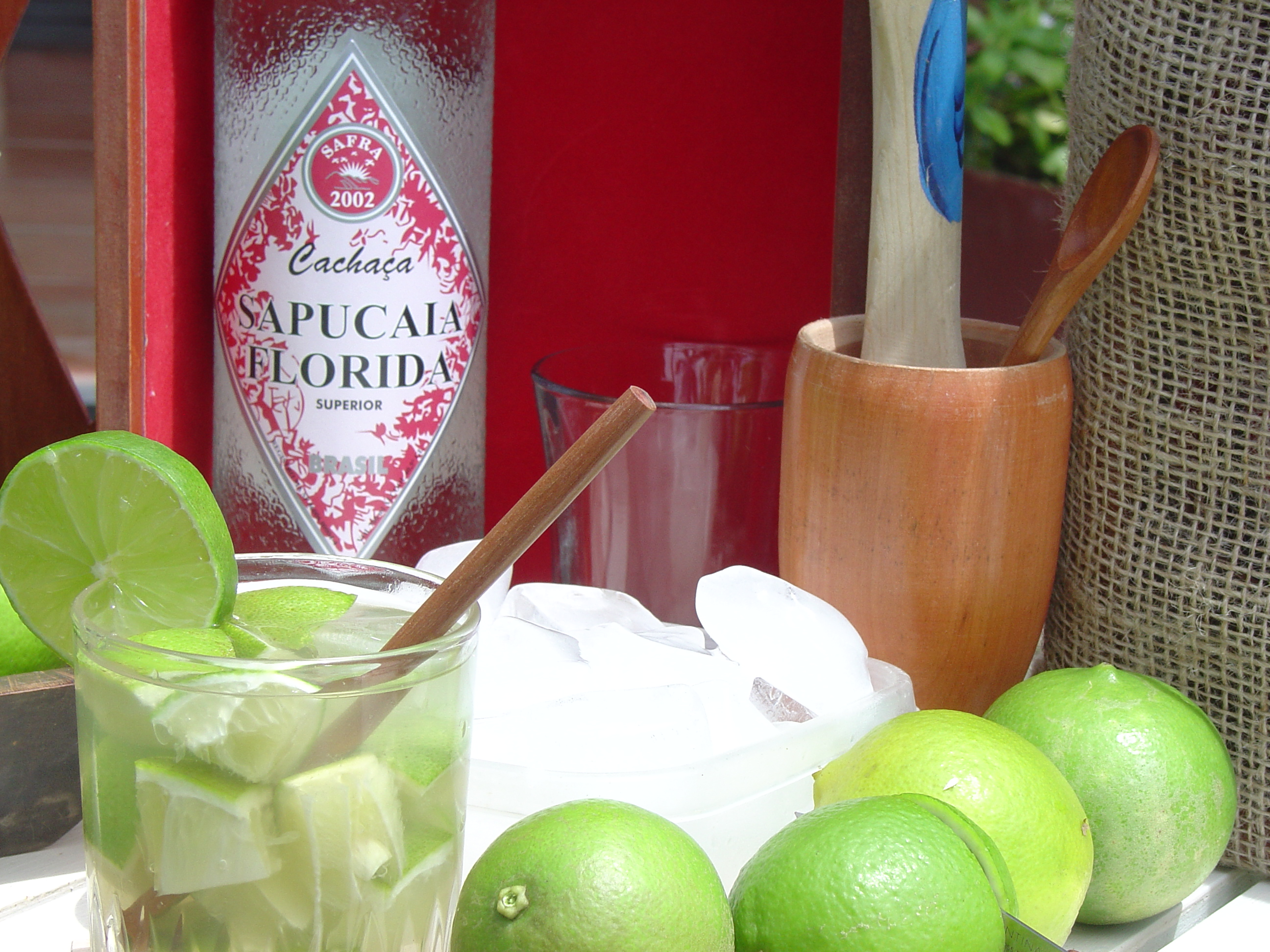 caipirinha cachaça brazil